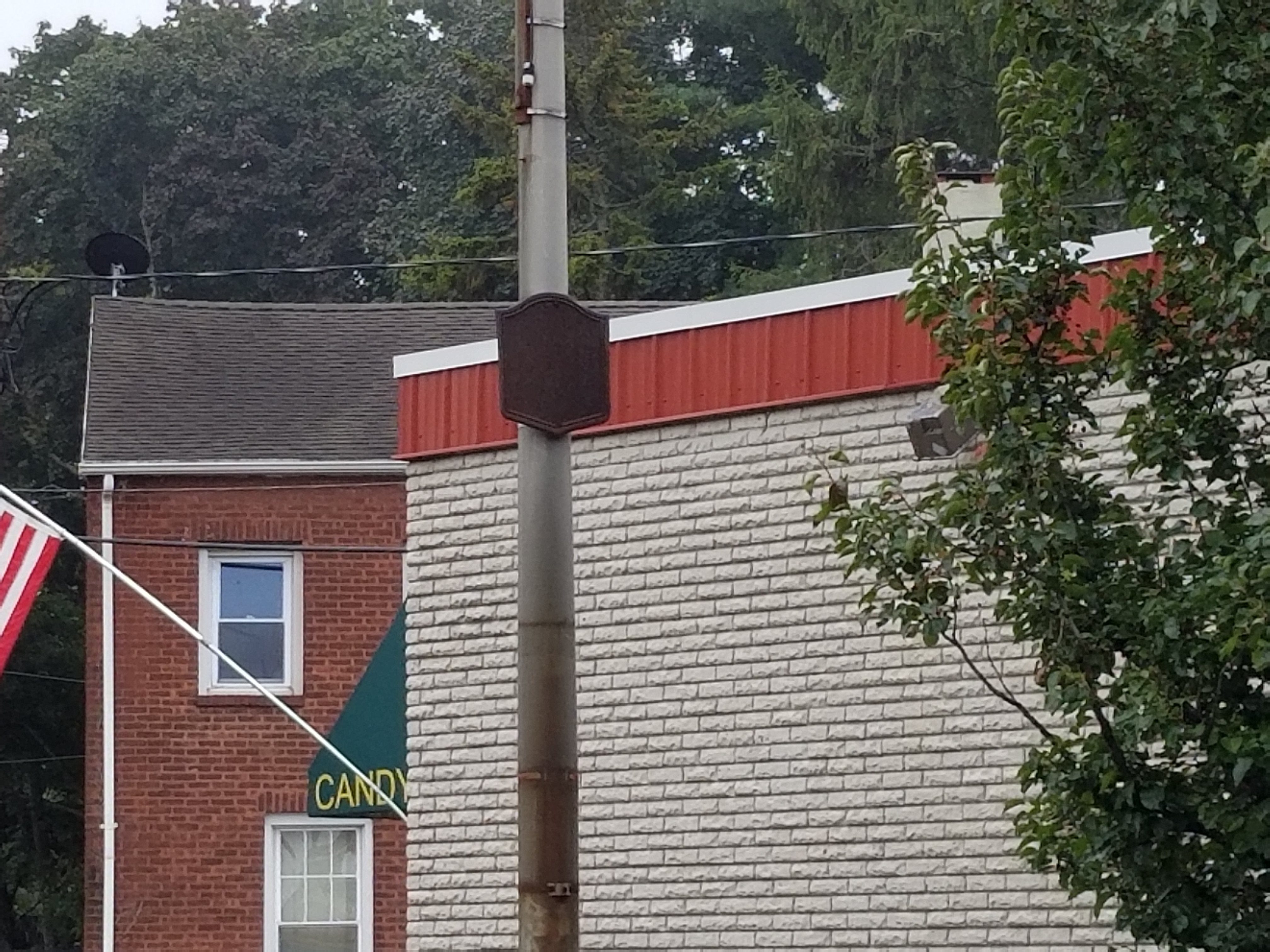 Badly rusted 1930s-specification New York state route shield on NY 32 in Kingston, NY as seen in October 2018